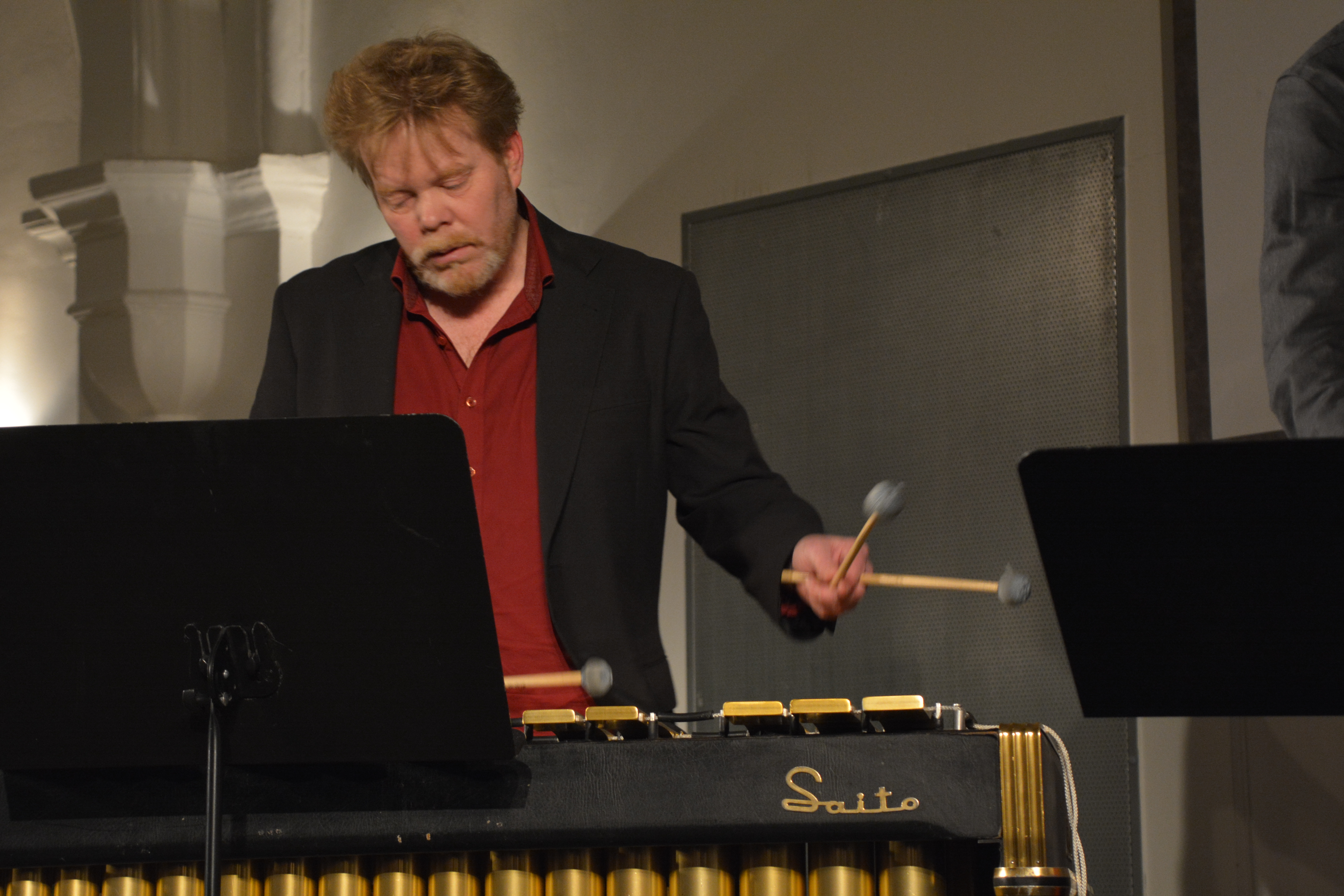 Severi Pyysalo